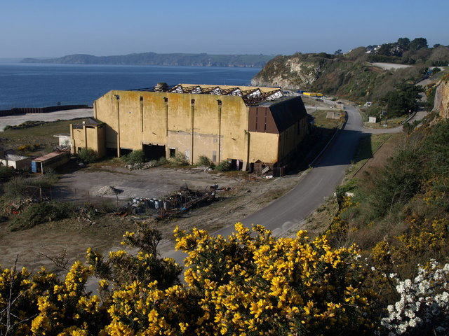 Cornwall Coliseum. The remains of a once major venue, also shown in 1212381 and 495309. They were taken two and three years ago, and things still look bleak. "The venue started as a country club in the 1930's seeing many wealthy visitors, including King Edward VIII, who visited the Riviera Club, as it was a very fashionable destination at that time" . Even while functioning in the 1990s, the building was described thus: "the hideous entertainment multiplex modestly named the Cornwall Coliseum is an ideal Led Zeppelin venue. It squats grimly on a granite beach a matter of feet from the Atlantic ocean. It is featureless, implacable, massy yet compacted, as if dropped on Cornwall from a great height: corrugated concrete blocks set against black cliffs and a riffing sea."